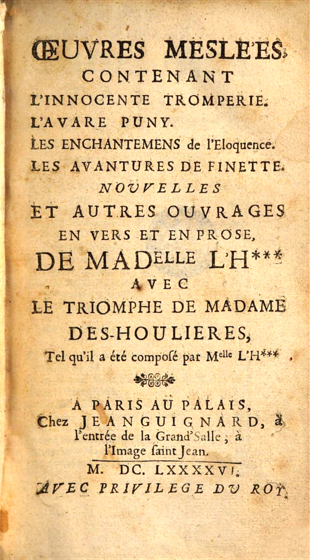 Front page of Marie-Jeanne L'Héritier de Villandon’s Œuvres meslées